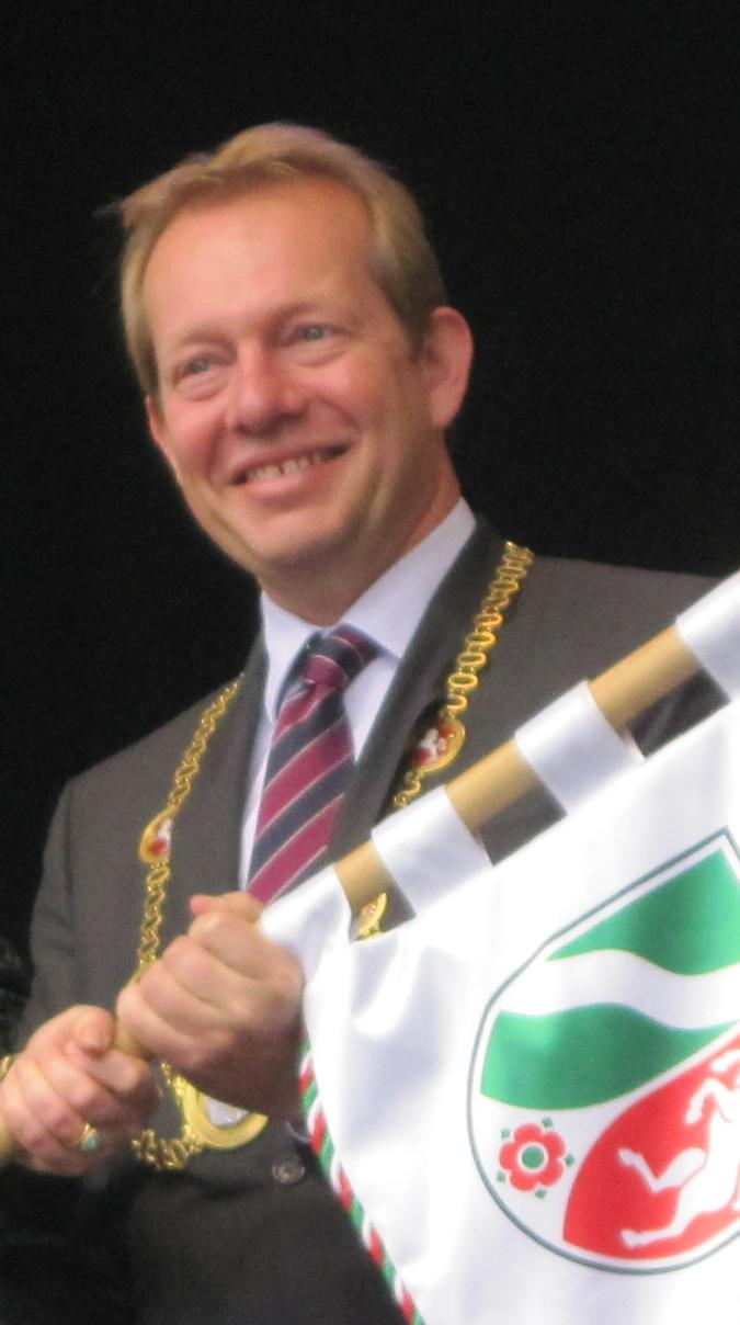 Steffen Mues, Siegen, Germany check usage